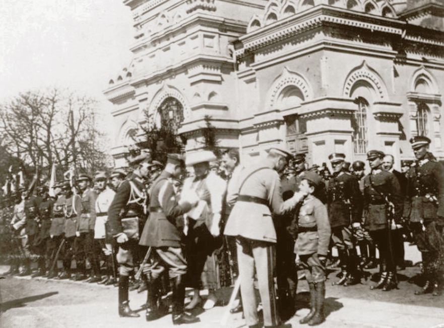 Józef Piłsudski decorates soldiers-defenders of Płock in Polish-Soviet War.